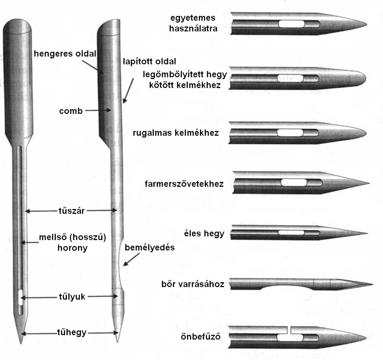 Diagram of several types of sewing machine needles covering their terminology and tip types